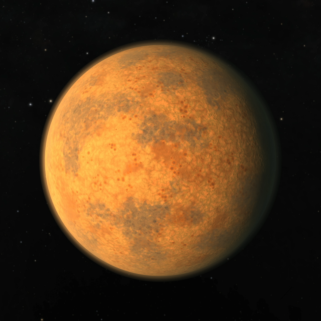 Artist's impression of the exoplanet TRAPPIST-1c, located in the Aquarius system of TRAPPIST-1. Originally created for NASA as part of their announcement of discoveries in the TRAPPIST-1 system on 22 February 2017. According to NASA, the planet is depicted as "a rocky, warm world with a small ice cap on the side that never faces the star." Screenshotted and cropped from File:PIA21468 - TRAPPIST-1 Planets - Flyaround Animation.ogg.